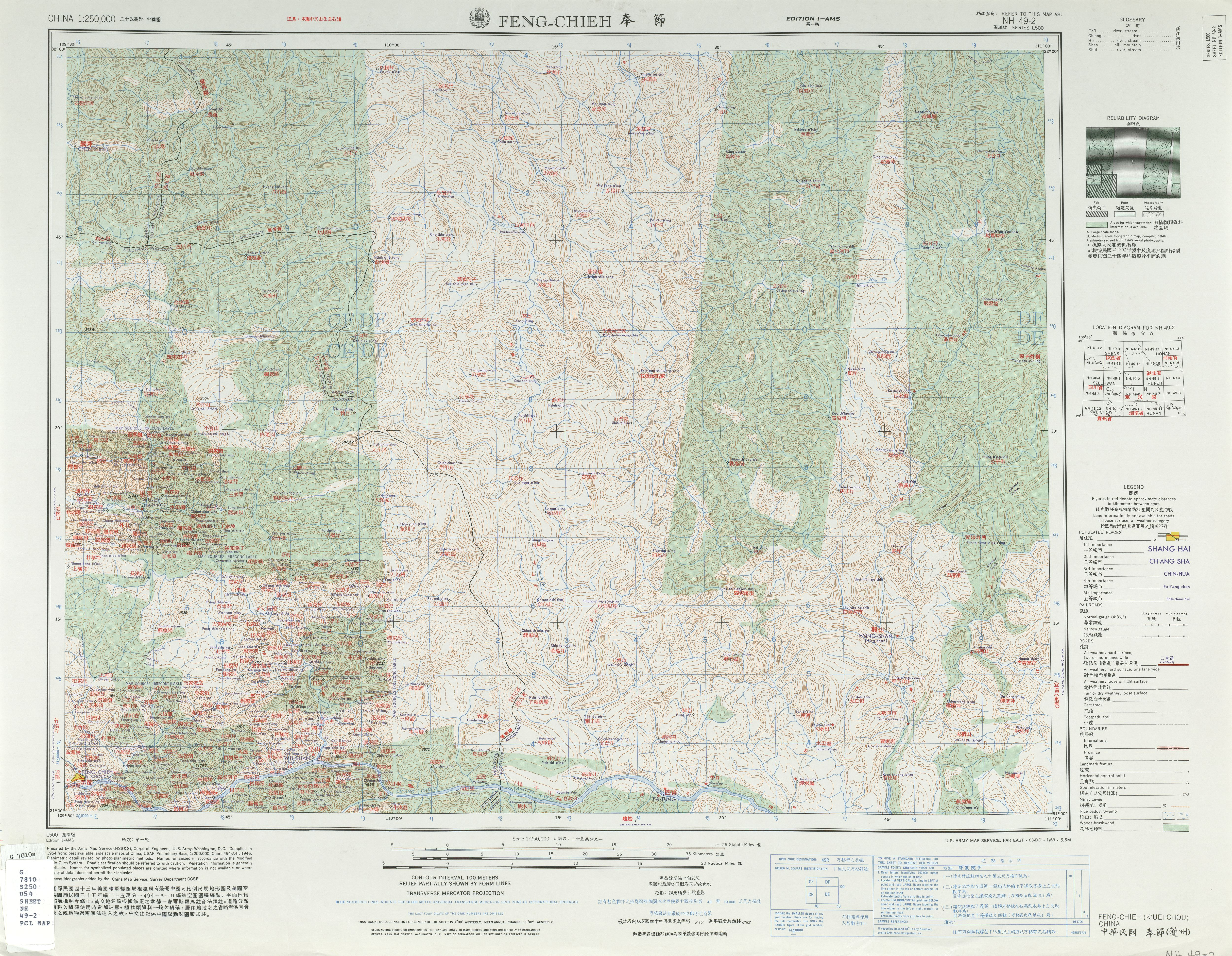 China AMS Topographic Maps